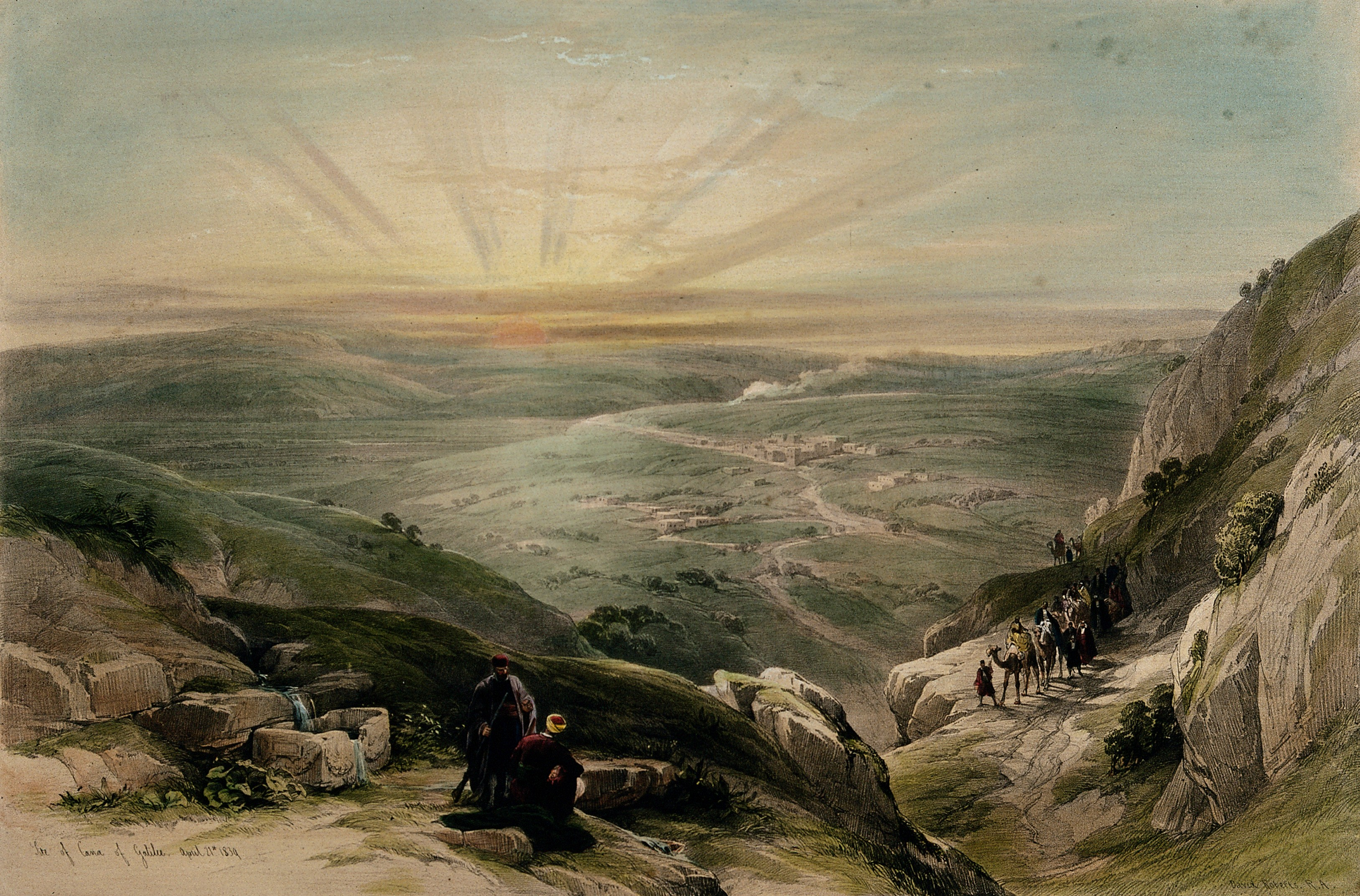 Sun setting over landscape with Cana in the distance, . Coloured lithograph by Louis Haghe after David Roberts, 1842. Iconographic Collections Keywords: David Roberts; Louis Haghe